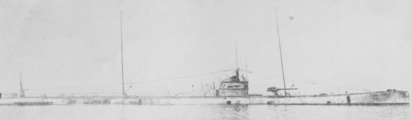 Japanese submarine Maru-2 (ex-U46).